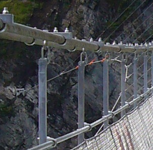 Pedestrian bridge (passerelle) over the Drac near the Lac De Monteynard-Avignonet, detail of the stabilizing cable system below the deck.